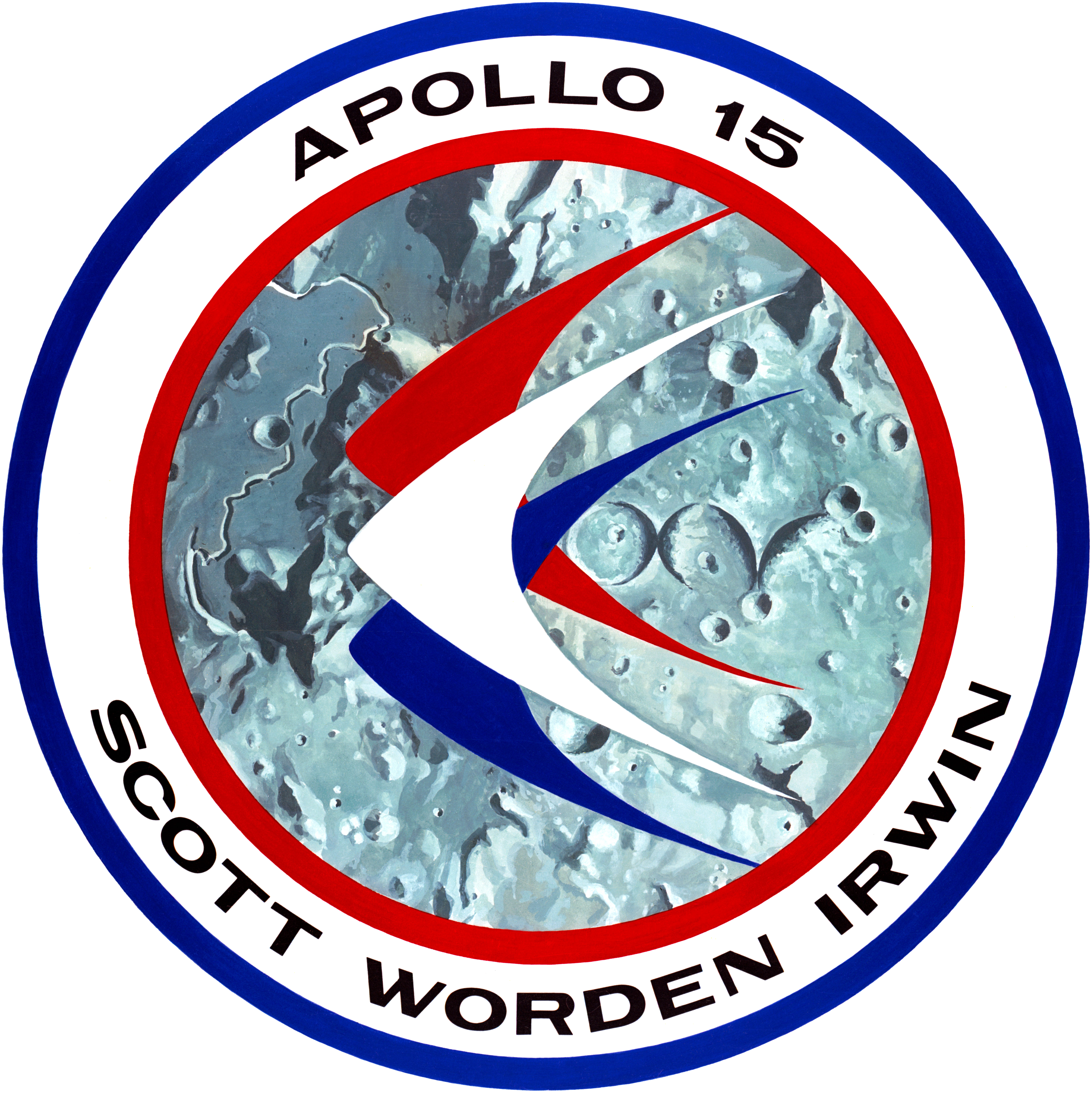 Logo of Apollo 15This is the insignia designed for the Apollo 15 lunar landing mission. The circular design features the colors red, white and blue. On the outer portion of the patch a narrow band of blue and a narrow band of red encircle a wider band of white. The large disc in the center of the emblem has red, white and blue symbols of flight, superimposed over an artist's concept of the Apollo 15 Hadley-Apennine landing site of gray tone. The surnames of the three names are centered in the white band at the bottom of the insignia. The Apollo 15 prime crew men are David R. Scott, commander; Alfred M. Worden, command module pilot; and James B. Irwin, lunar module pilot.